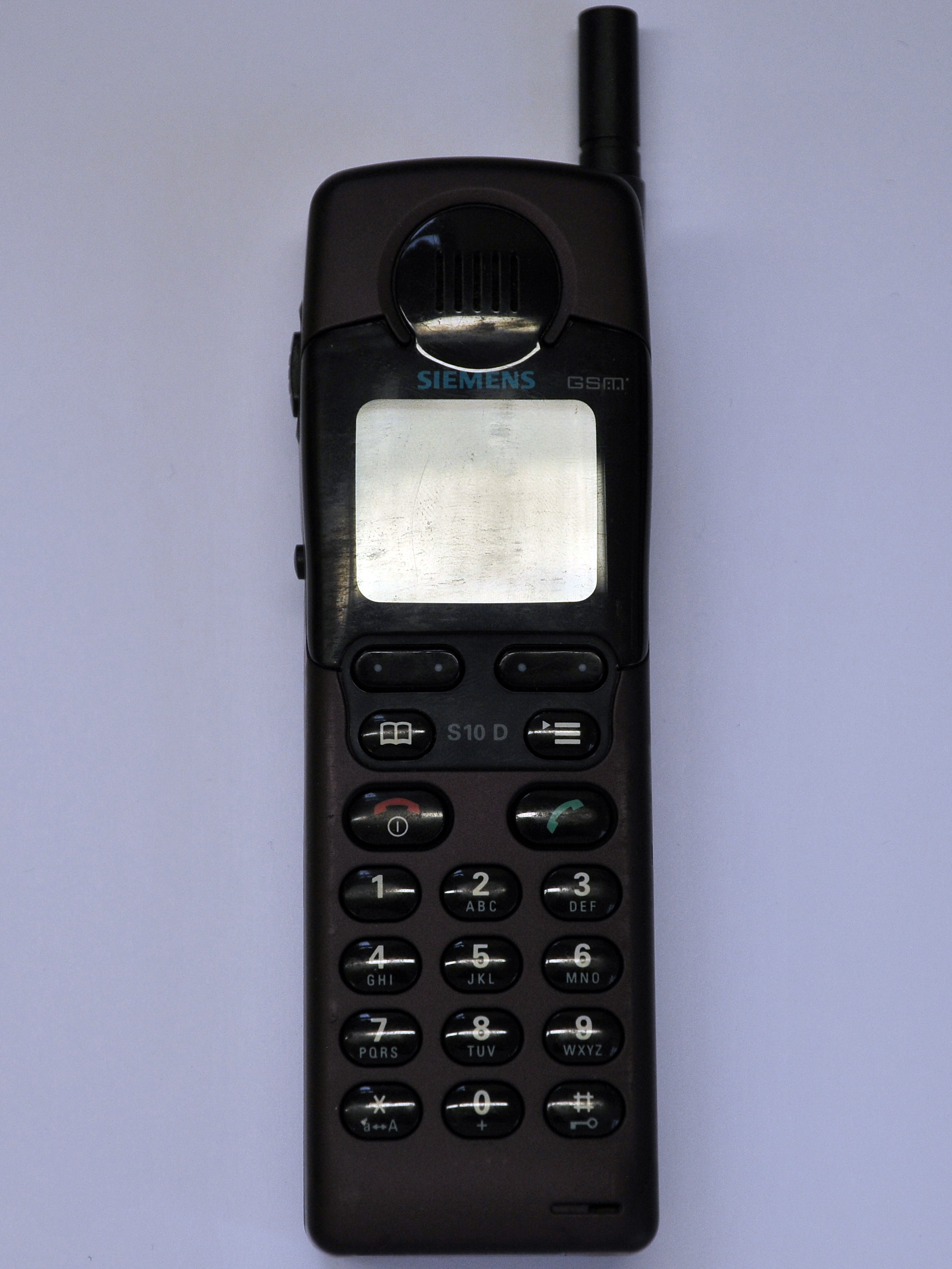 Siemens S10 Mobile Phone